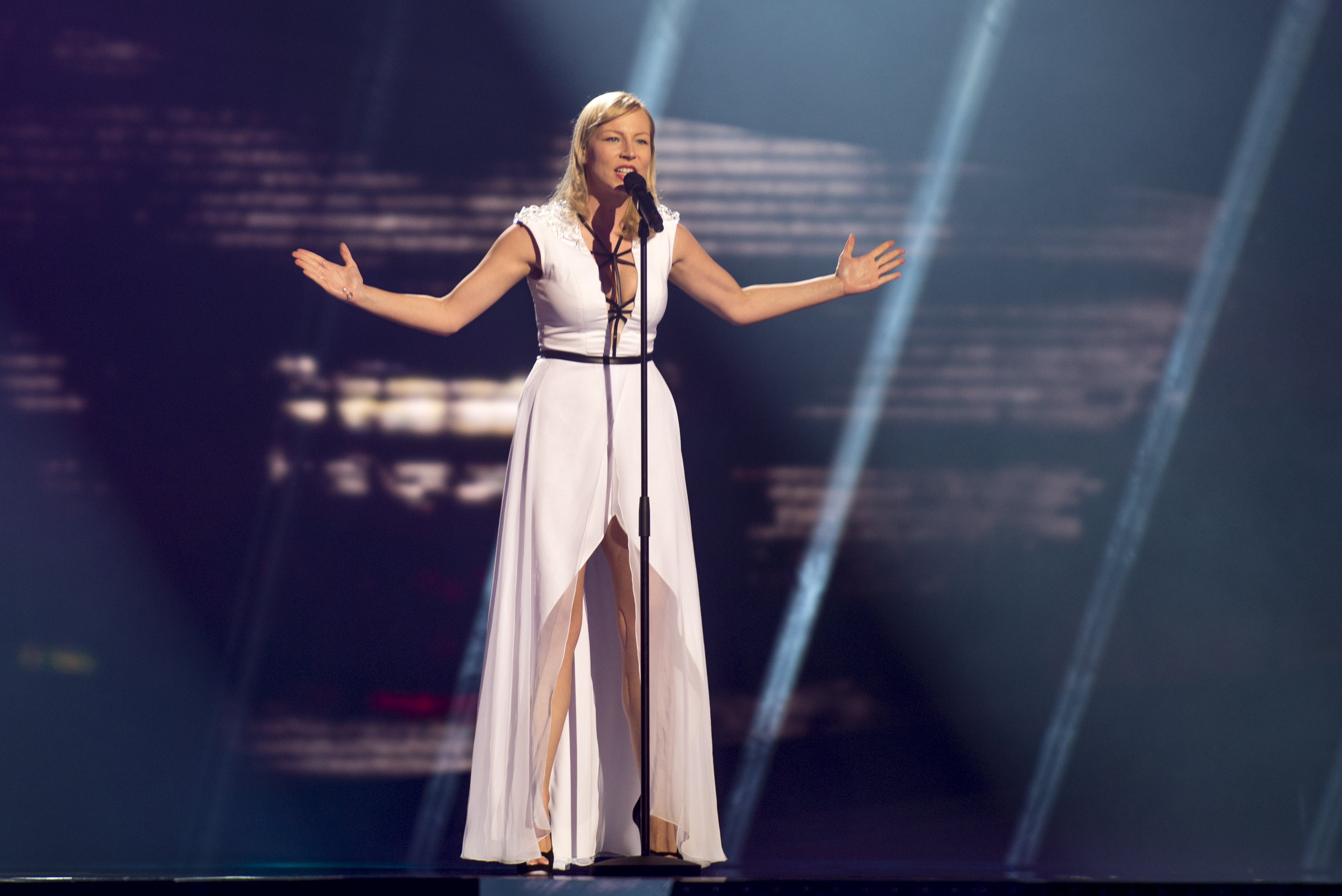 ManuElla representing Slovenia with the song "Blue And Red" during a rehearsal before the second semi final of the Eurovision Song Contest 2016 in Stockholm. (Help translate this text)